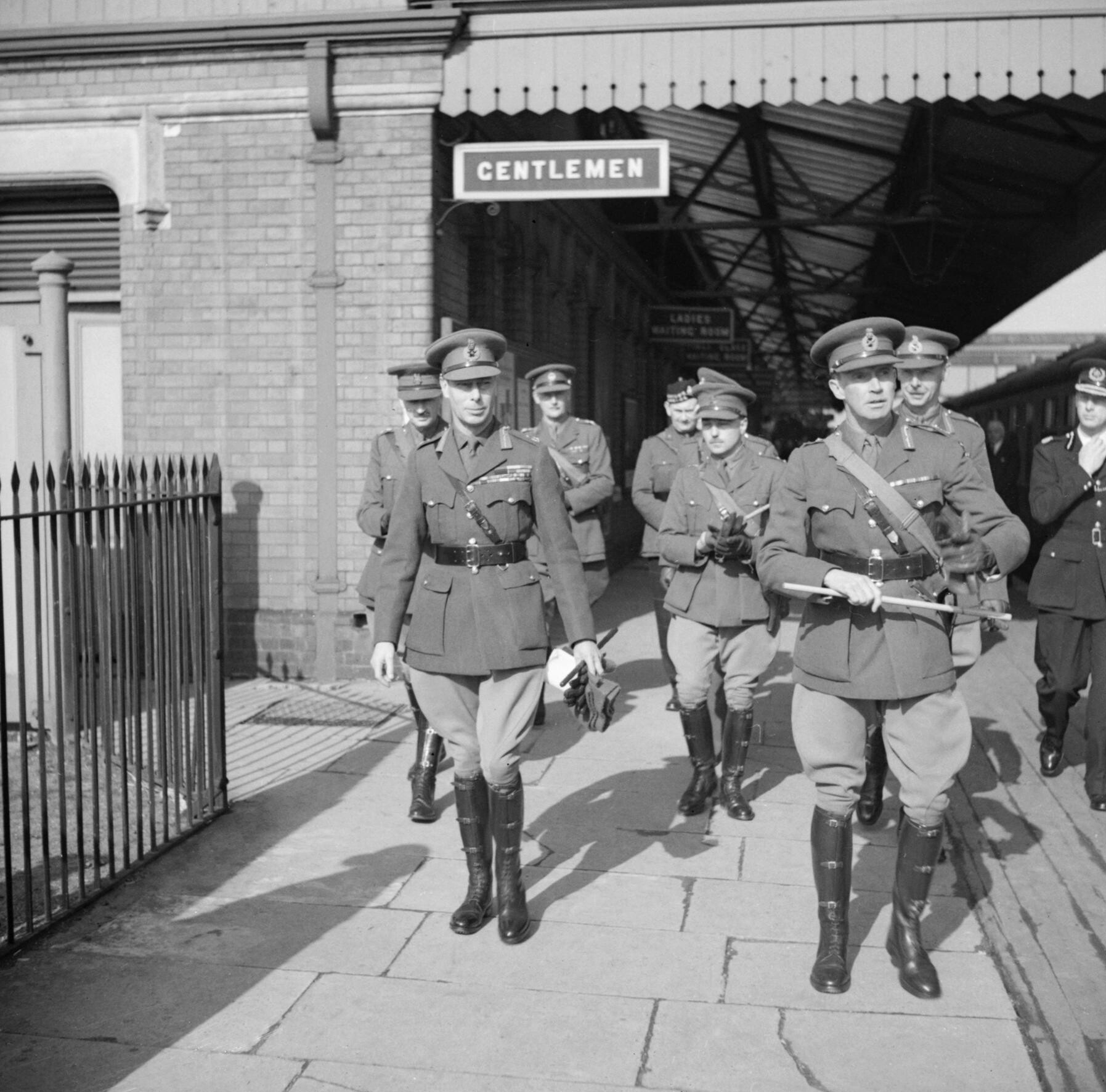 King George VI (left) with Army officers at a railway station when he arrived to inspect troops of 2nd Infantry Division at Burford-on-the-Water and Moreton-in-the-Marsh, Gloucestershire, 1 April 1942. King George VI (left) with Army officers at a railway station when he arrived to inspect troops of 2nd Infantry Division at Burford-on-the-Water and Moreton-in-the-Marsh, Gloucestershire, 1 April 1942.